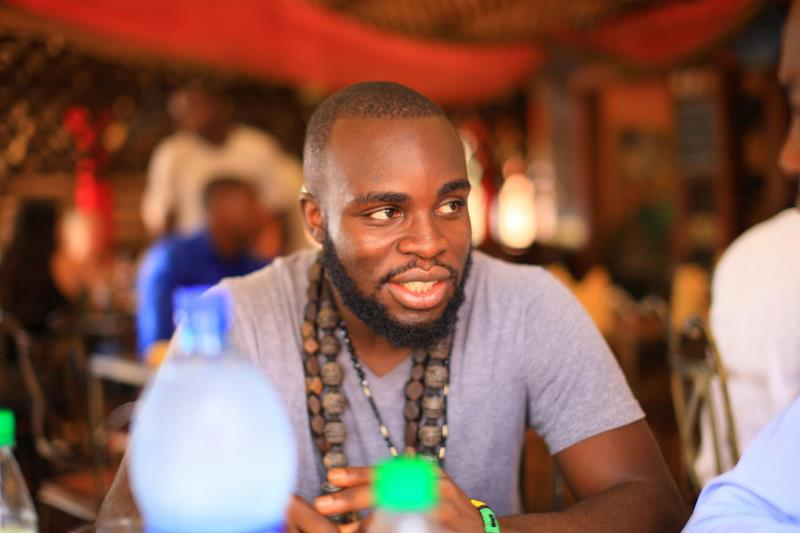 M.anifest spotted at a restaurant in Accra